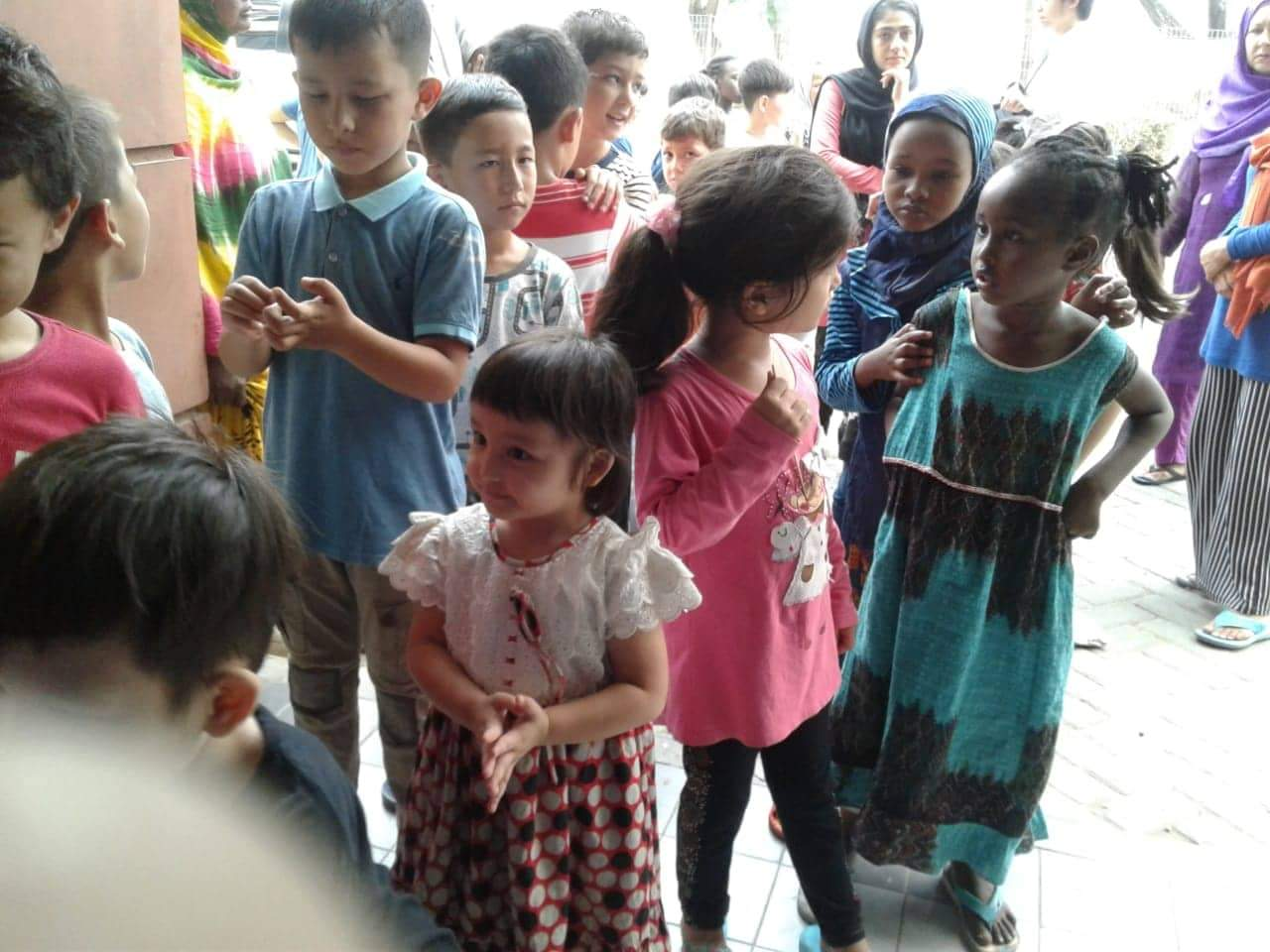 A couple of Refugee kids at a shelter in Tangerang, Indonesia